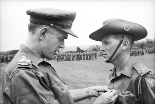 Phuoc Tuy, Vietnam. 1967-01. Major Harry Smith of St. John's Wood, Brisbane, Qld, receiving the ribbon to the Military Cross for gallantry from Brigadier O.D. Jackson